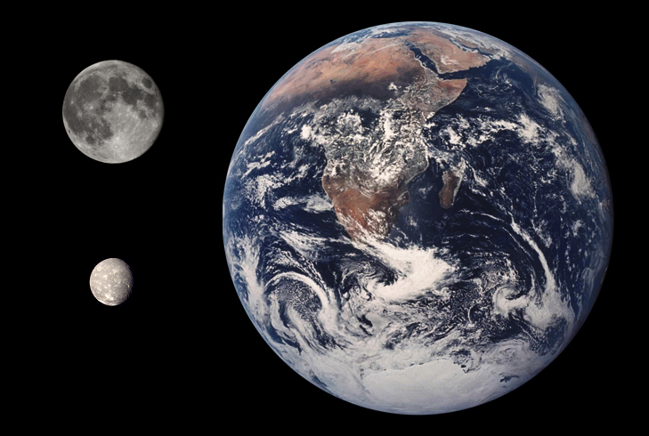 Diameter comparison of the Uranian moon Titania, Moon, and Earth. Scale: Approximately 28.9 km per pixel.